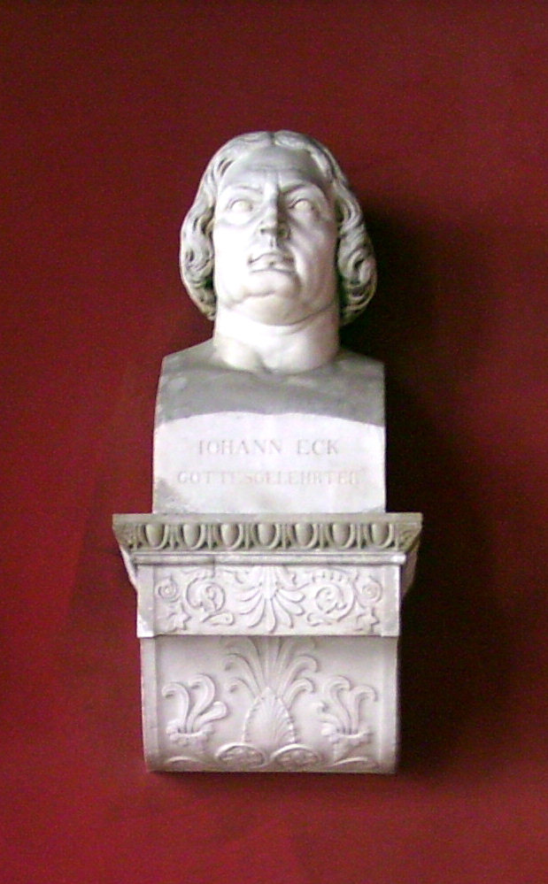 Bust of Johann Eck at Ruhmeshalle ("Hall of fame"), München, Germany. Picture taken by myself: Dominik Hundhammer, München, 27 March 2006.